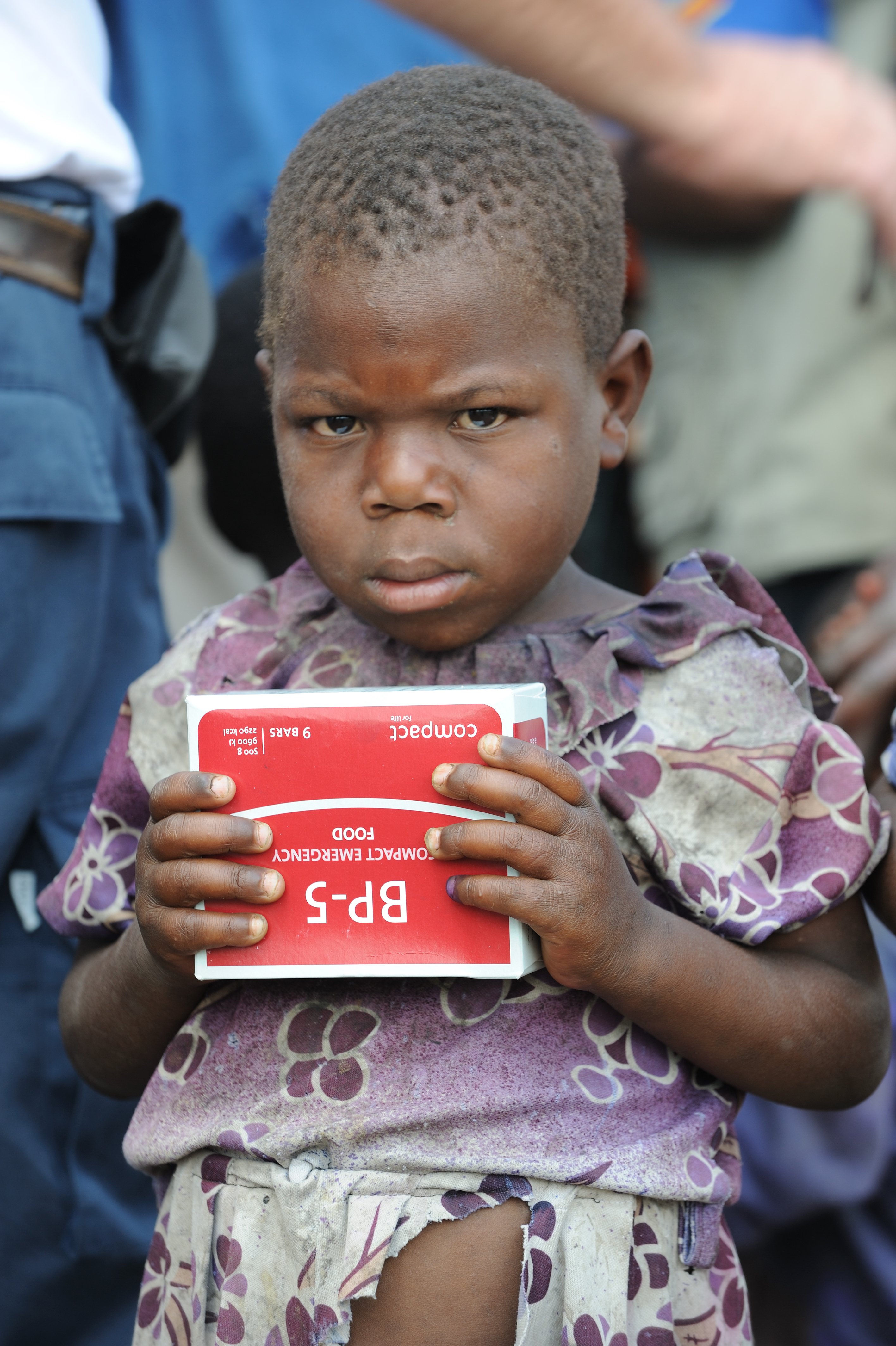 Distribution of high energy biscuits and medical supplies in Kibati, Goma, Congo by Unicef. UNICEF distributed high energy biscuits BP5 and medical supplies for the centre which had been looted by government soldiers.